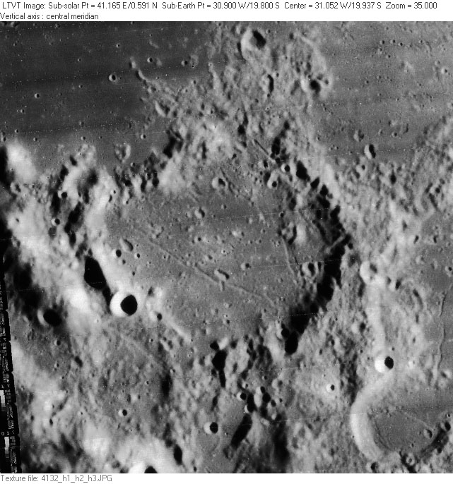 Crater Agatharchides. Detail from Lunar Orbiter IV-132H. High resolution scans from the USGS Lunar Orbiter Digitization Project remapped to a north-up aerial view by LTVT.